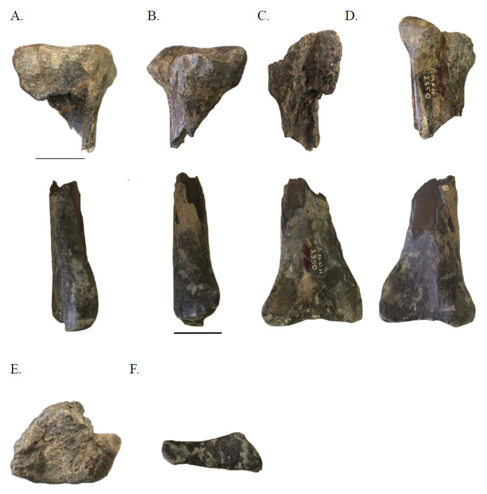 Tibia of an indeterminate taxon of tyrannosauroid, AMNH 2550. Tibia in lateral (A), medial (B), dorsal (C), ventral (D), proximal (E), and distal (D) views. Scale bar = 50 mm.